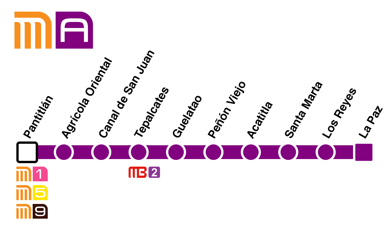 Mexico City Metro Line A plan, 2018